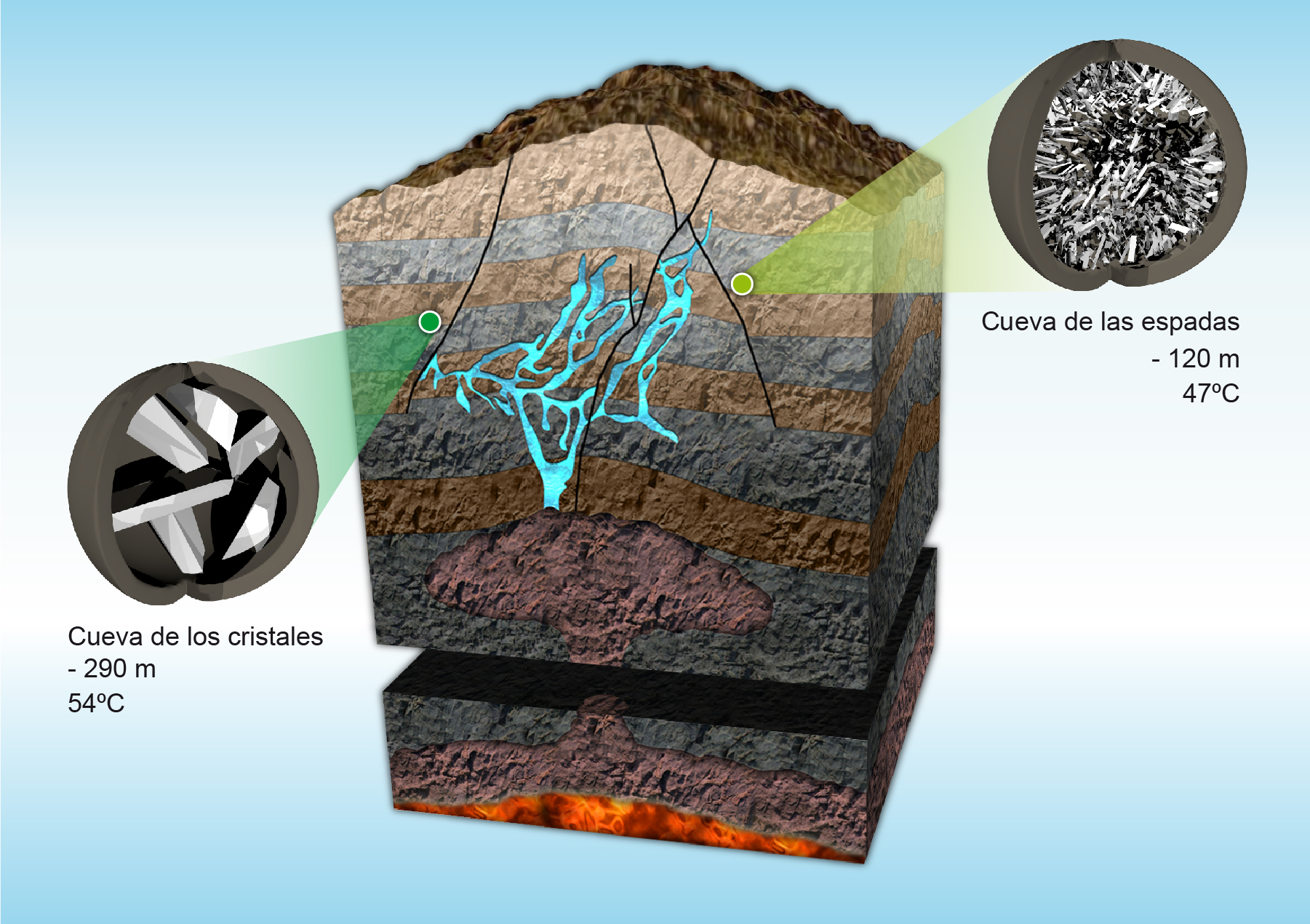 Location of the caves with the gypsum crystals within the idealized block diagram of Naica mine. Indications in the image: Swords cave: Level: -120m Aprox. crystals growth temperature: 45°C Crystals cave: Level: -290m Aprox. crystals growth temperature: 55°C Infographic by Albert Vila and Andreu Módenes with scientific monitoring Àngels Sabaté Canals, geologist at University of Barcelona (UB)